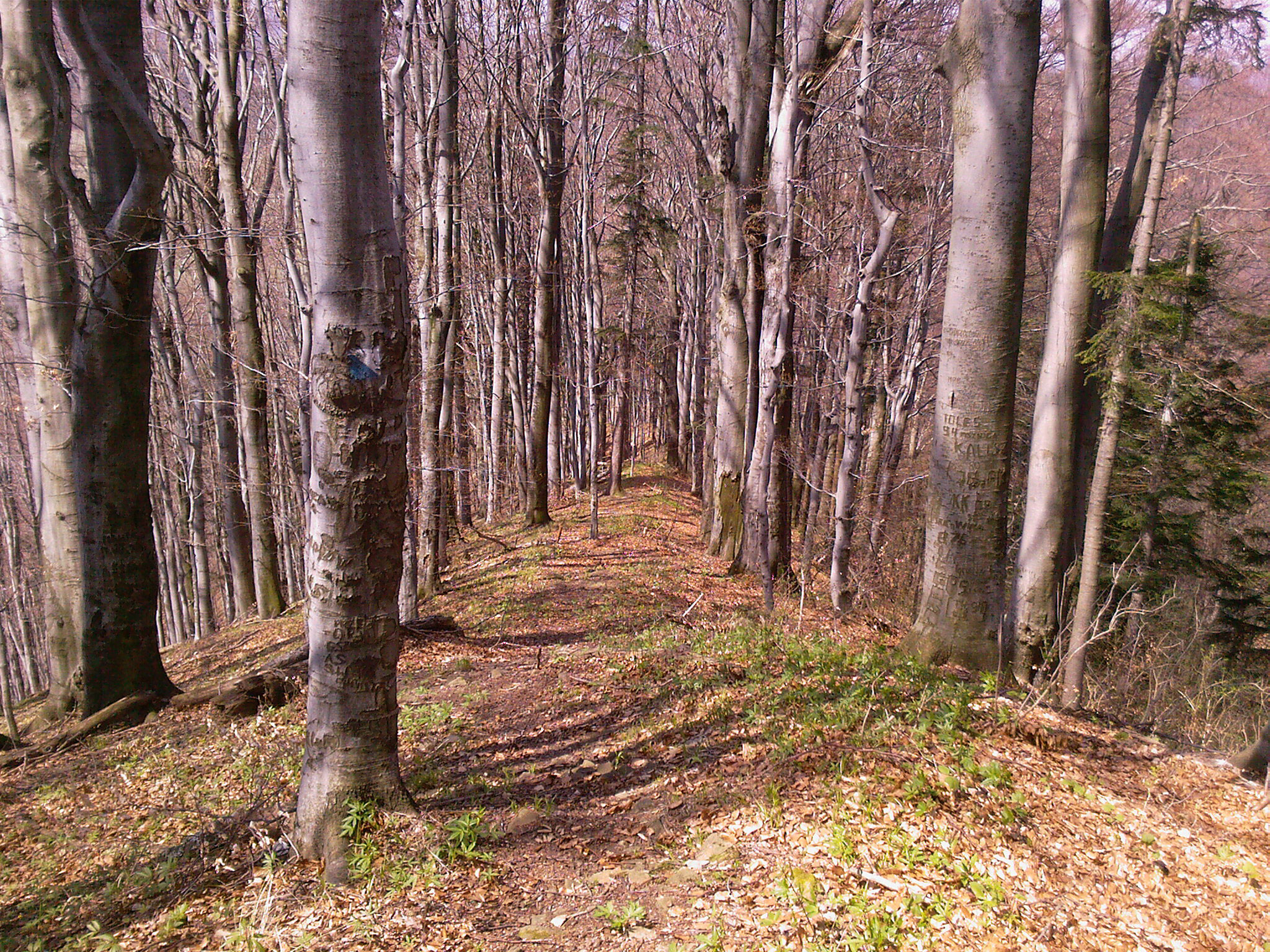 Kiczora peak